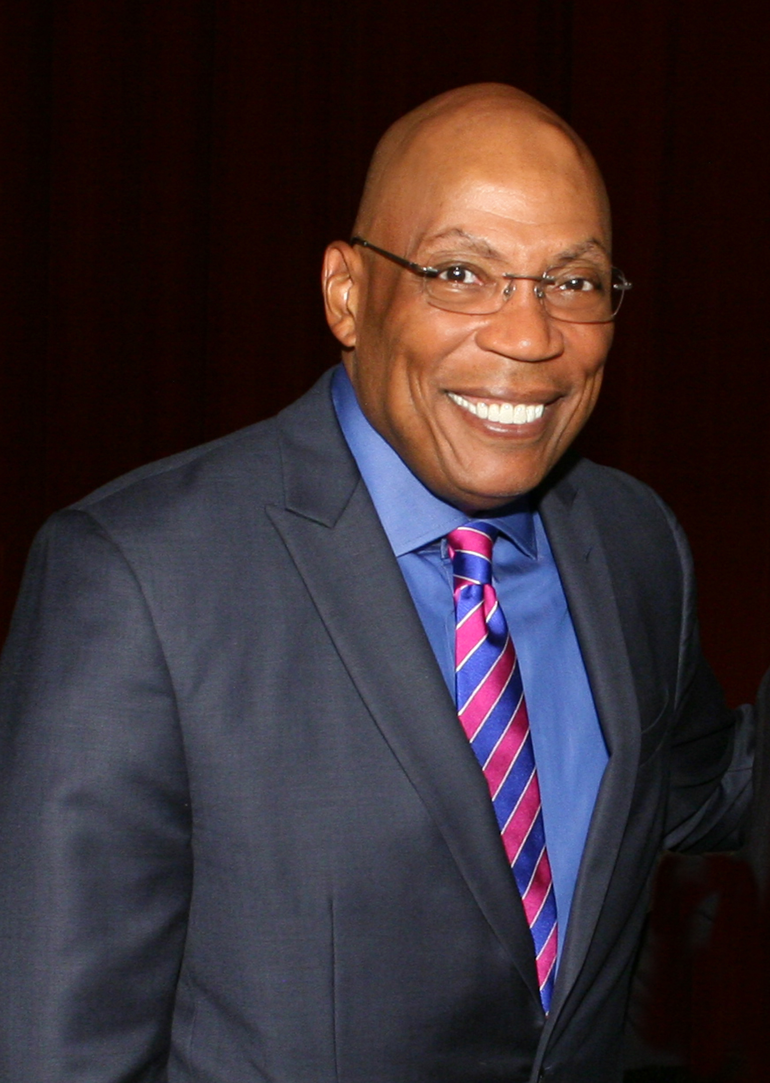 Paris Barclay at the DGA National Biennial Convention, where he was elected DGA President on June 22, 2013 in Los Angeles